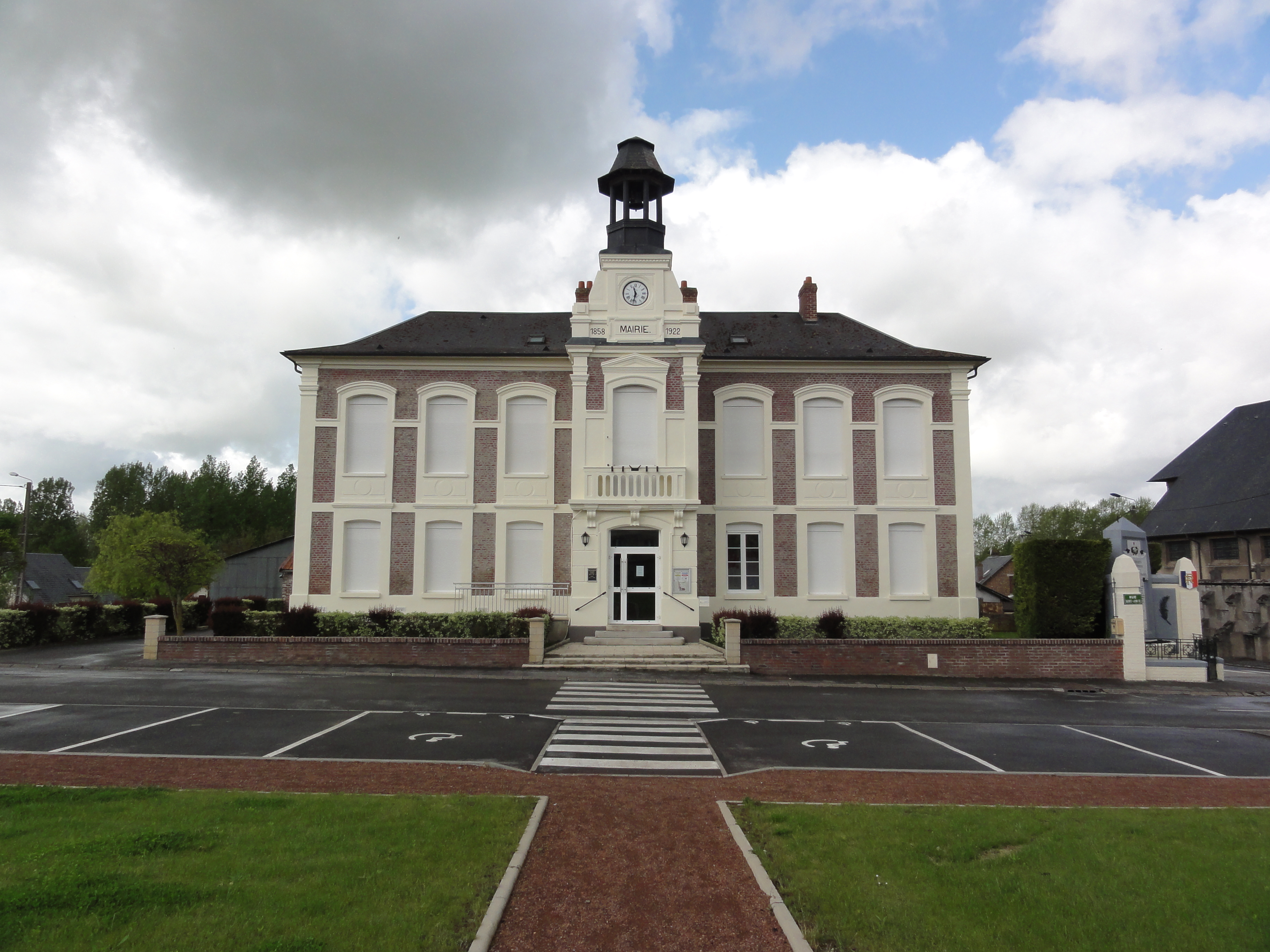 Brissy-Hamégicourt (Aisne) mairie à Brissy